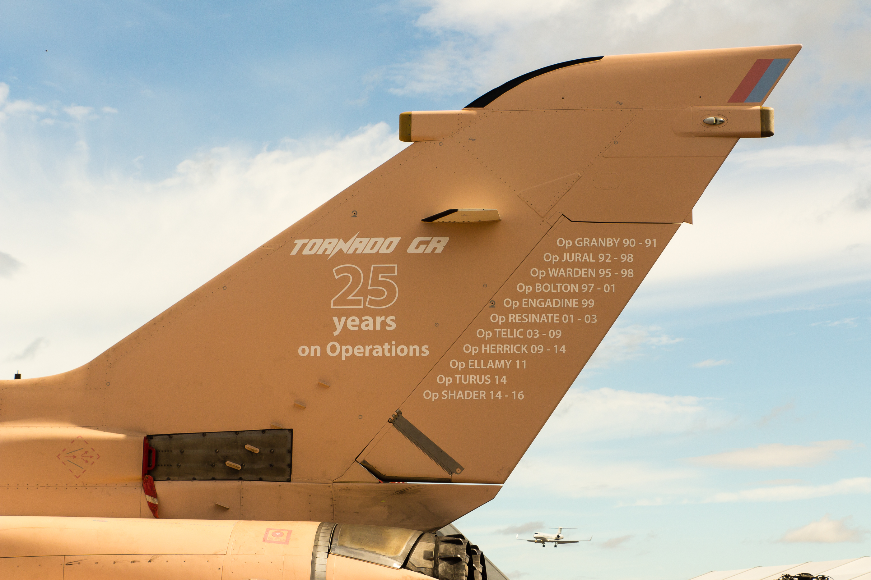 Panavia Tornado GR4 ZG750 at the Farnborough Airshow. The aircraft is liveried like an Operation Granby Tornado, marking 25 years of Tornado GR operations.